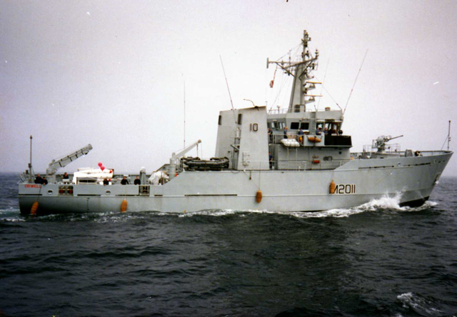 Photograph of British minesweeper HMS Orwell (M2011) in the Bay of Biscay en route to Gibraltar, 1990. Photograph taken from on-board sister ship HMS Helmsdale